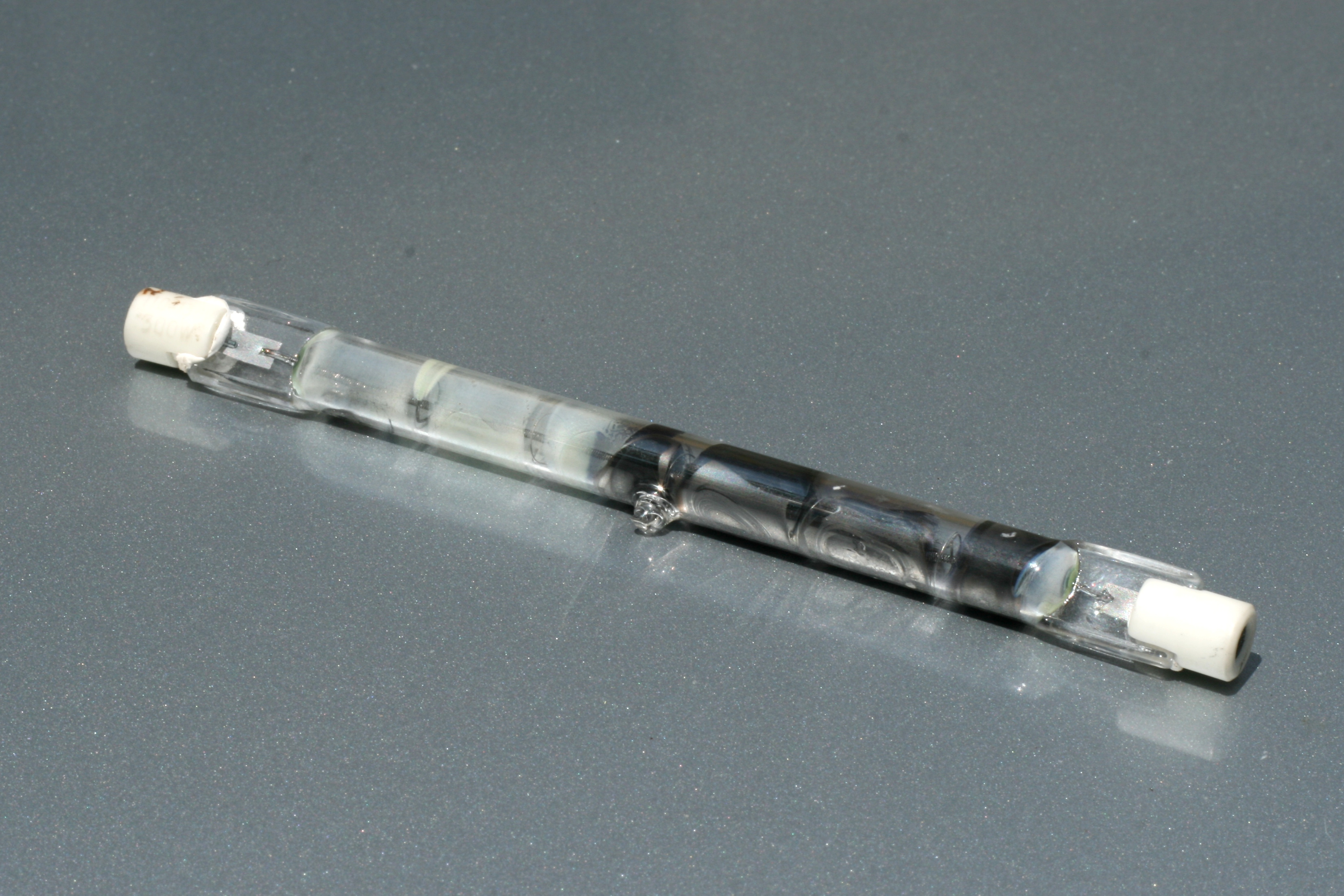 A destroyed 300-Watt Dual Pole halogen lamp.